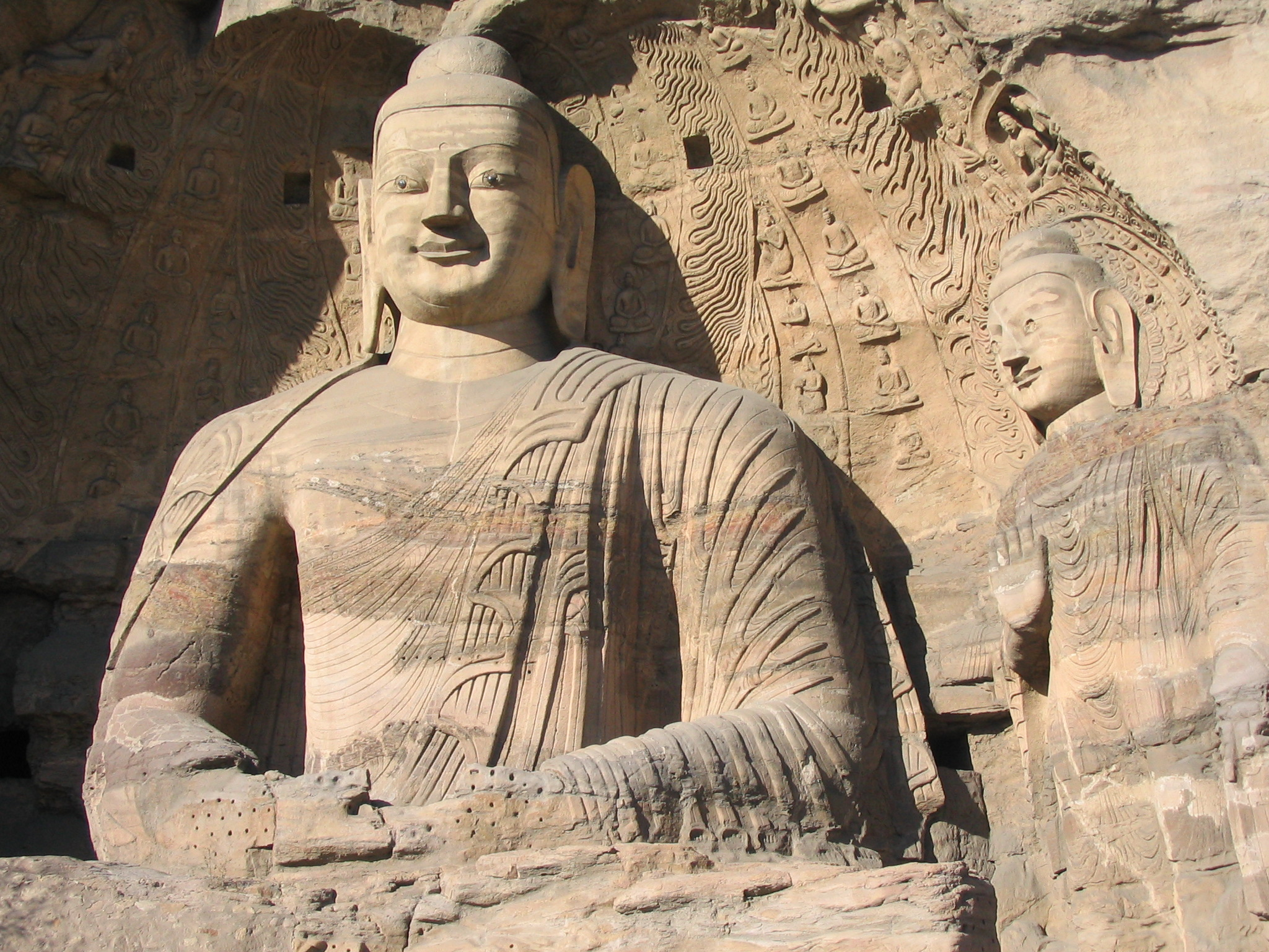 Two Buddhist statues. The cave front has collapsed, leaving them visible from outside. Yungang Grottoes, near Datong, Shanxi province, China.